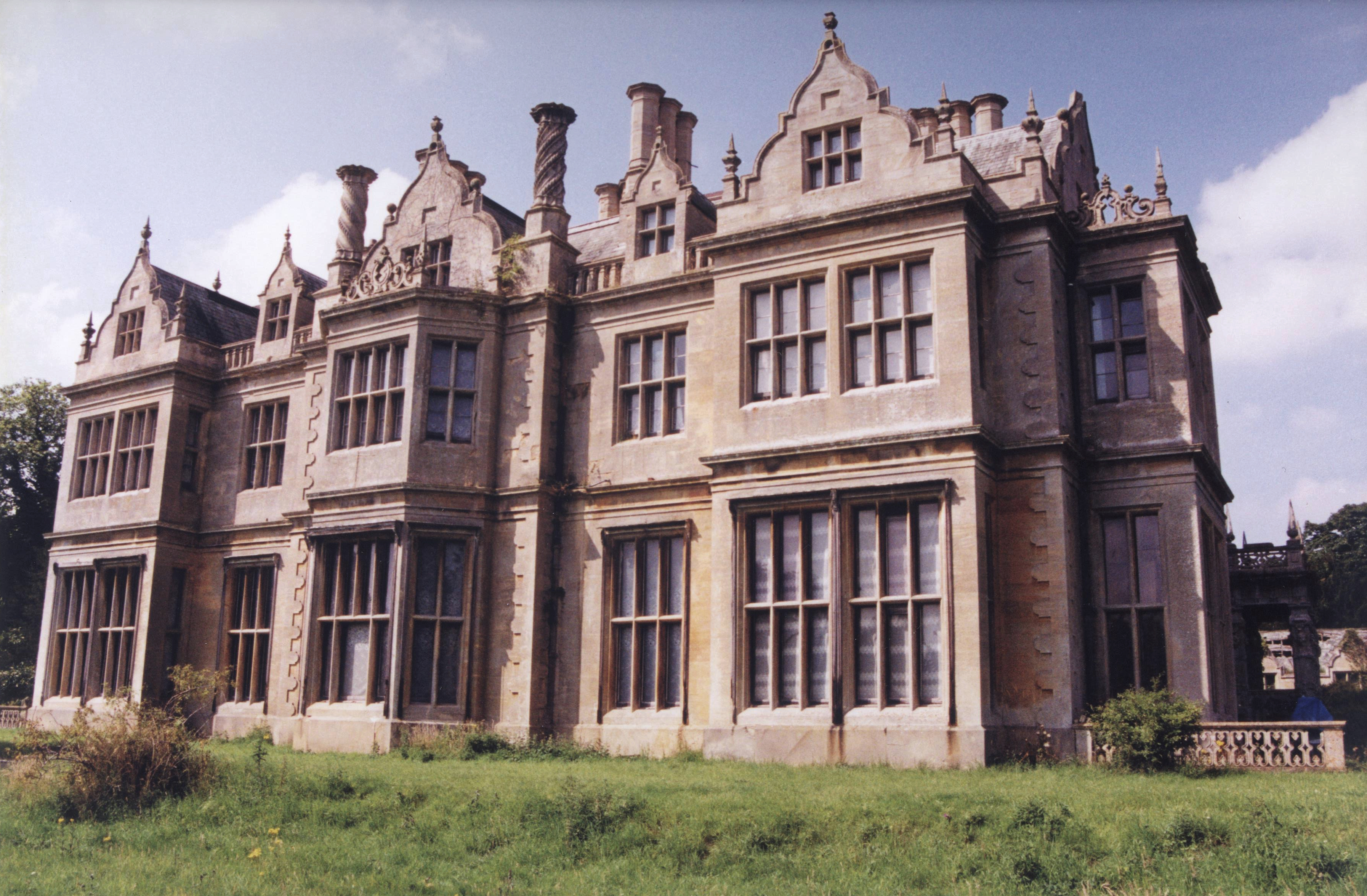 A 2001 photograph of the south-east of Revesby Abbey House on the site of the previous Revesby Abbey at Revesby, Lincolnshire, England.Processing: photograph taken with a Nikon F4 SLR film camera; negatives or prints scanned with HP Scanjet G4050, and optimized and/or cropped and/or spun with Adobe Photoshop CS2, and/or DxO OpticsPro 10 Elite. Wikidata has entry Q1256757 with data related to this building.